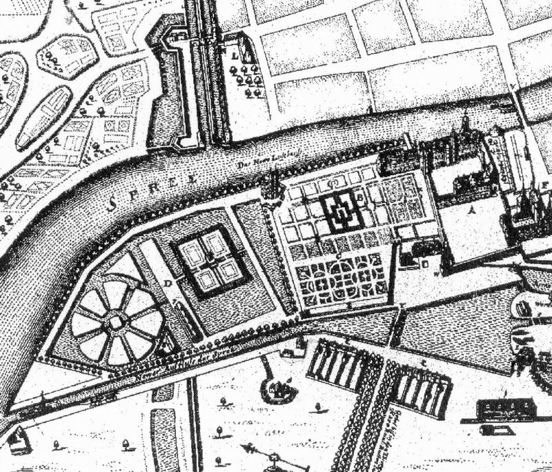 Cut from Image:Memhardt1652.jpg with the Lustgarten and palace garden